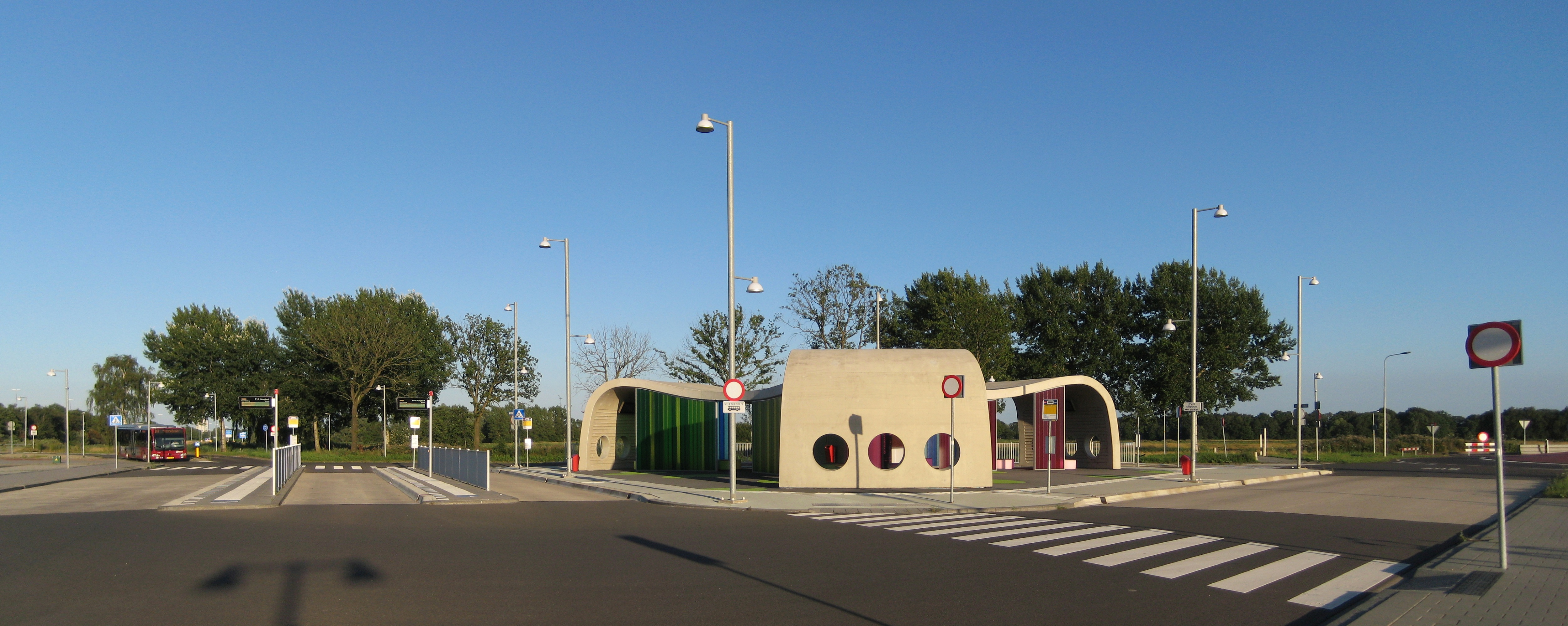 Bus station (2011) in Hoogkerk, a village and former municipality in the Dutch city of Groningen.